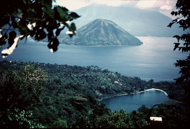 The Tidore volcanic complex rises to the south across a narrow strait from Ternate Island.